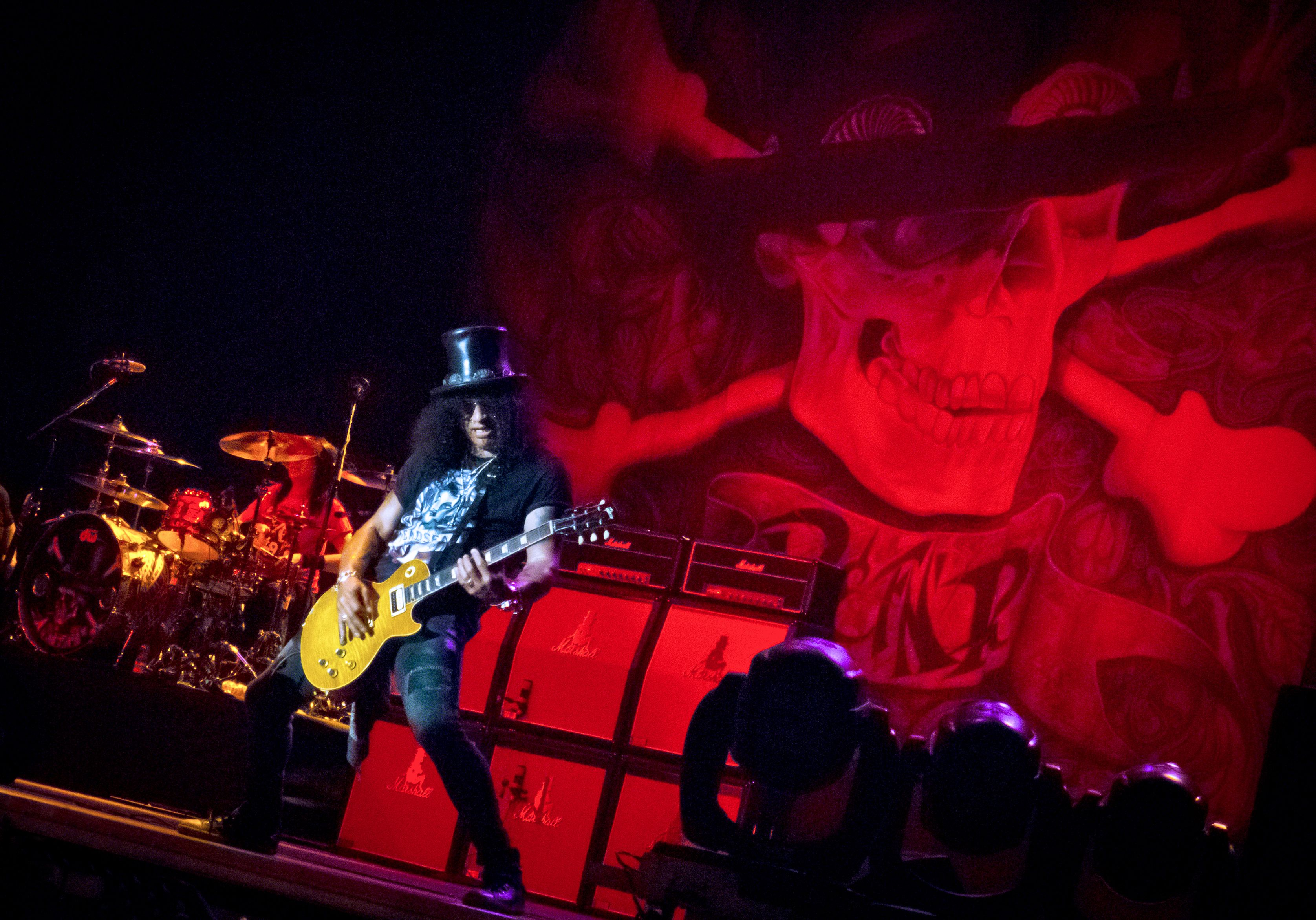 Slash in Madrid Sonisphere festival (2011)